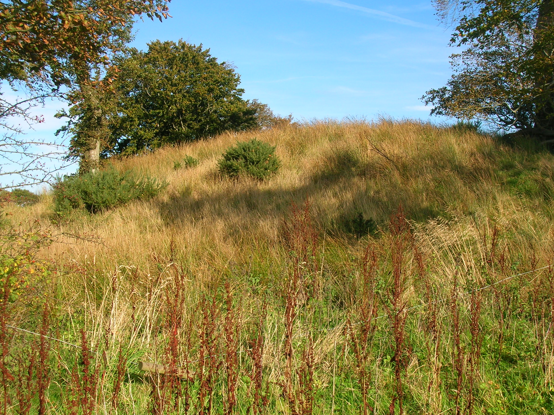 A close up of Stacklaw hill mound, North Ayrshire, Scotland. A possible Moot hill. It is close to the Hutt Knowe near Bonshaw farm.